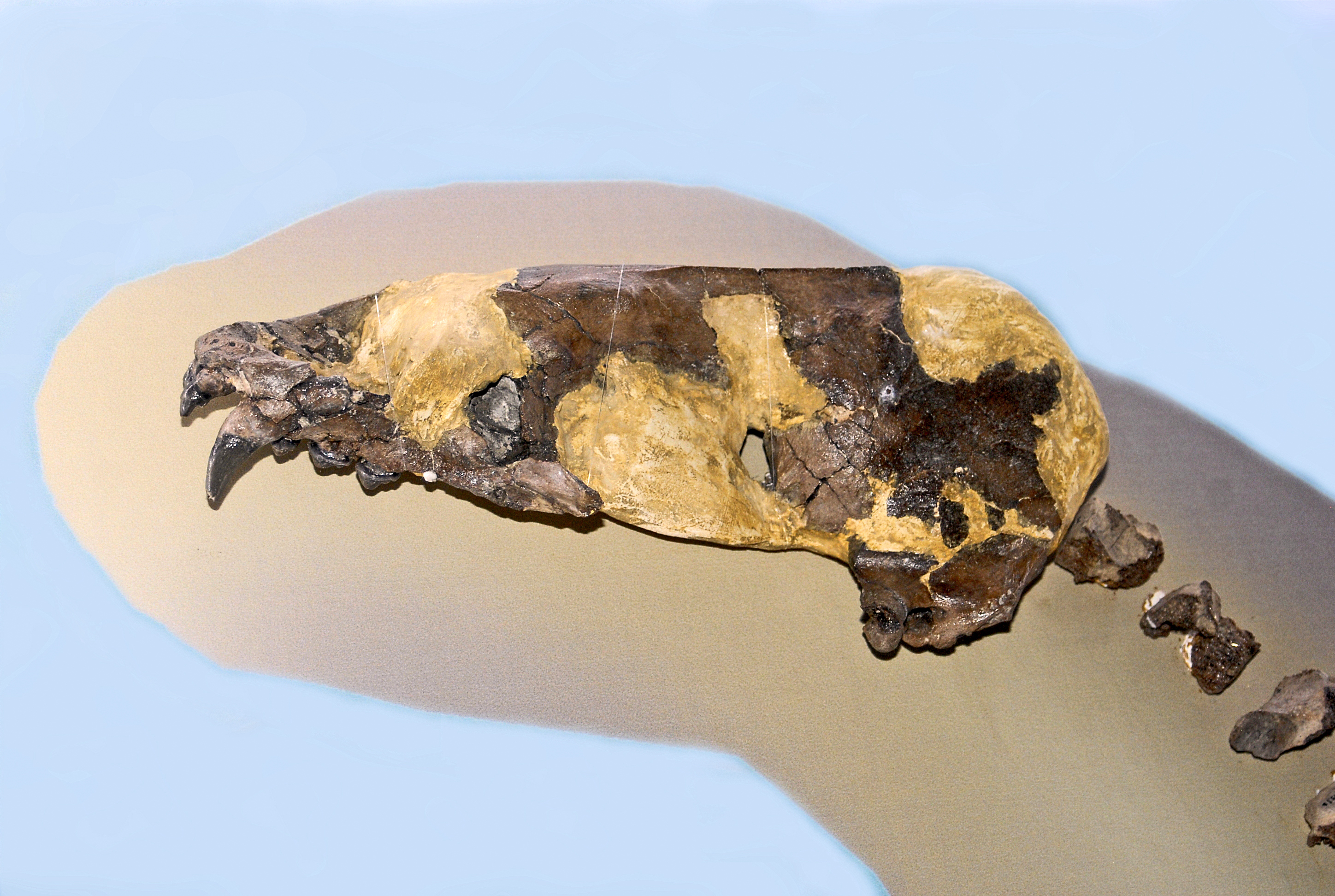 Fossil skull of Pliophoca etrusca, on display at the Museo di Storia Naturale e del Territorio, Calci (Province Pisa), Italy